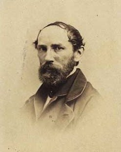 Christian Godtfred Rump (1816-1880), Danish landscape painter